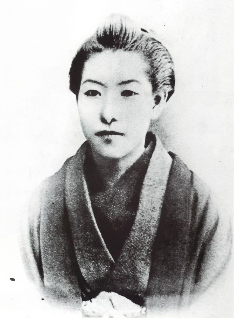 Portrait of Higuchi Ichiyou, a Japanese writer. (樋口一葉, 1872 – 1896)